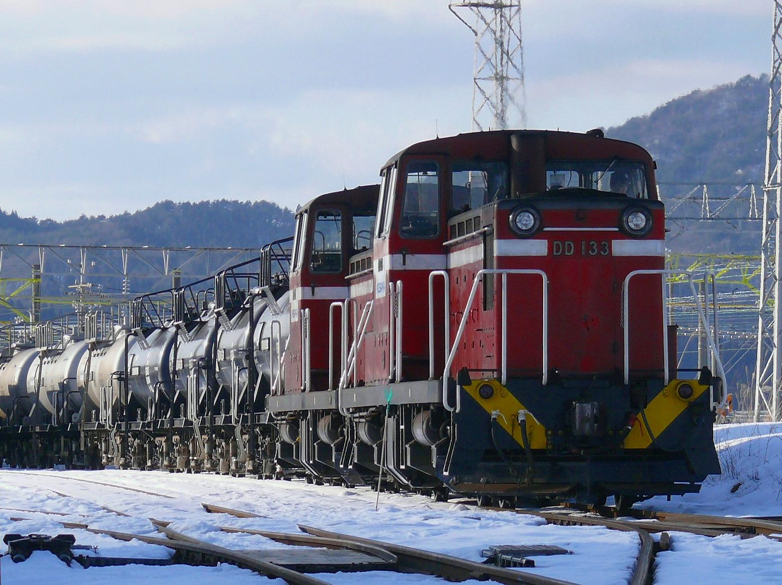 A pair of Class DD130 diesel locomotives headed by DD133 on a sulphuric acid tank train at Odate on the Kosaka Smelting Kosaka Line in Akita-prefecture, Japan